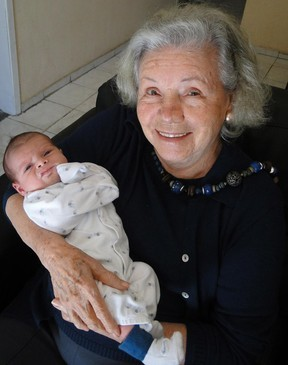 Brazilian actresses